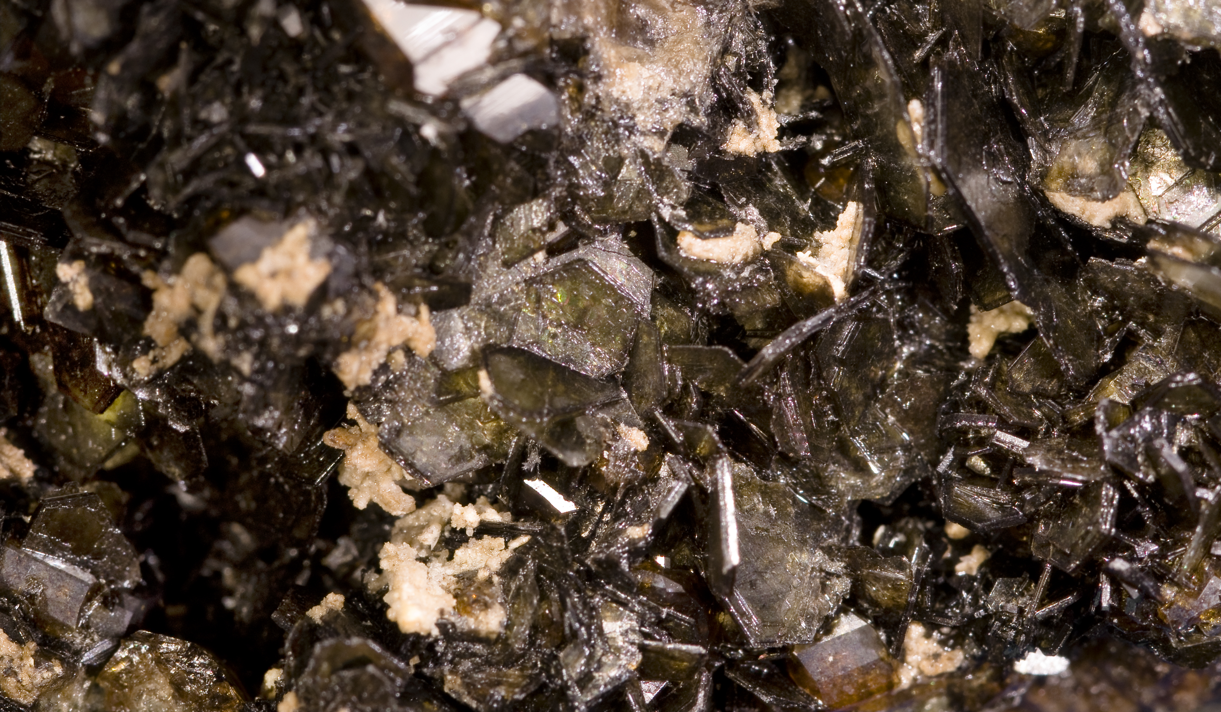 Biotite (meroxene) Locality : San Vito quarry, San Vito, Ercolano, Monte Somma, Somma-Vesuvius Complex, Naples Province, Campania, Italy Size : View 1.5cm